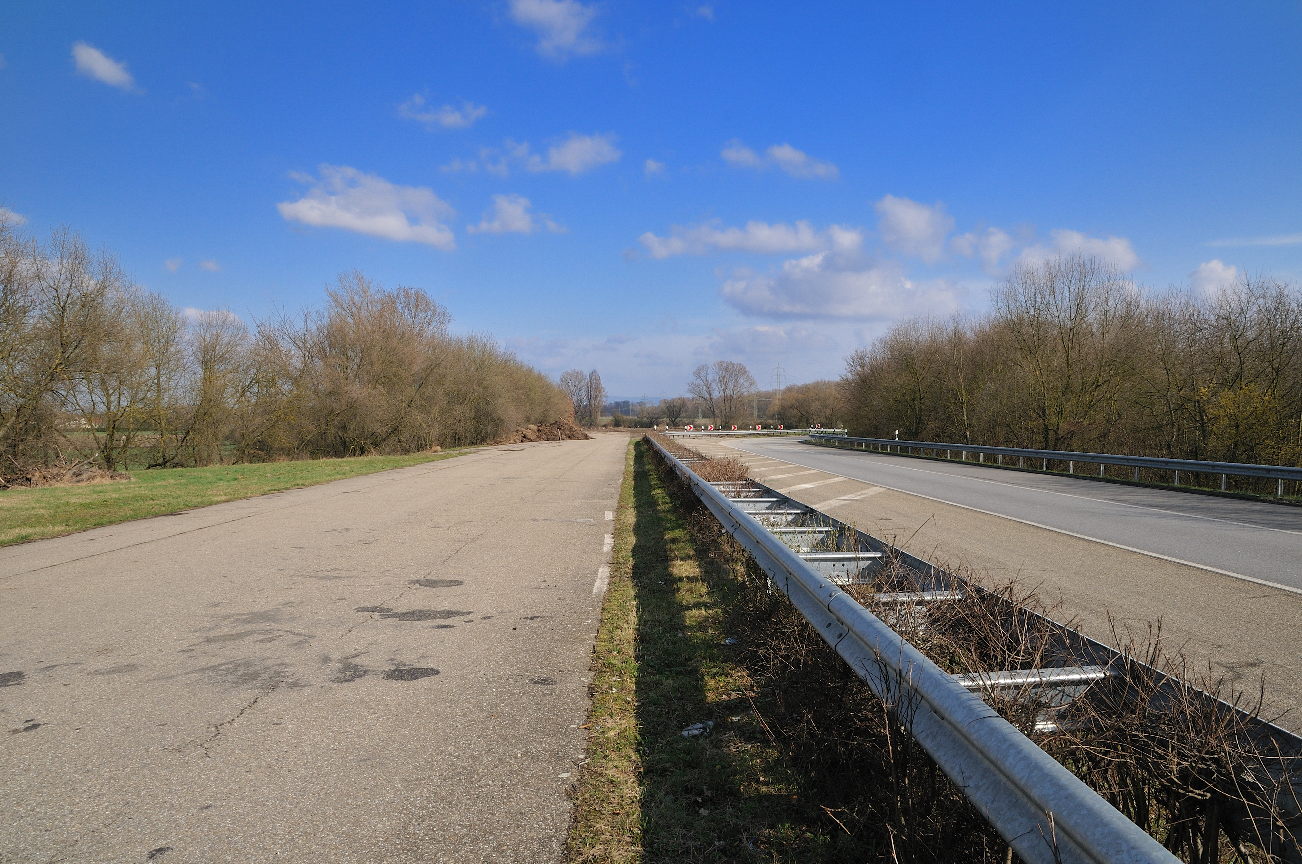 End of the german federal road 44.